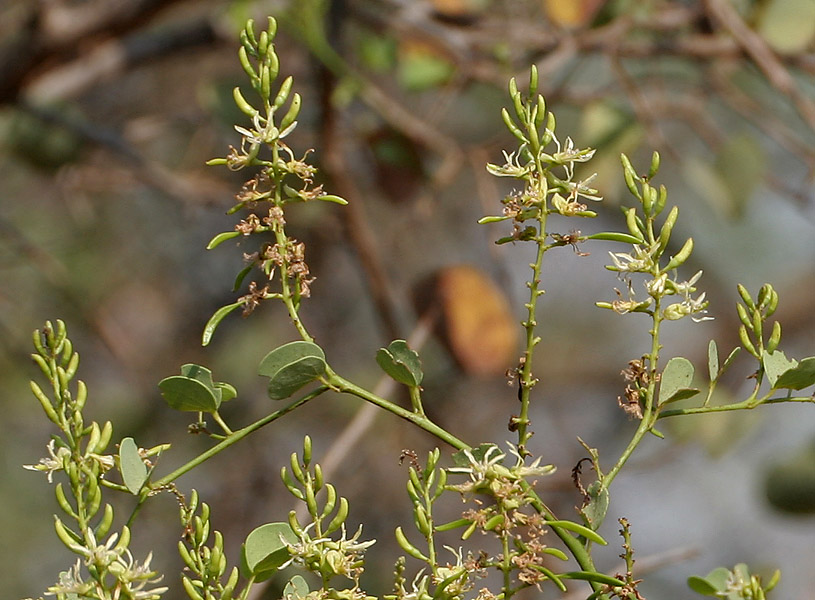 Jhinjheri, apta or SonTaaka Bauhinia racemosa in Mahavir Harina Vanasthali National Park, Hyderabad, India.